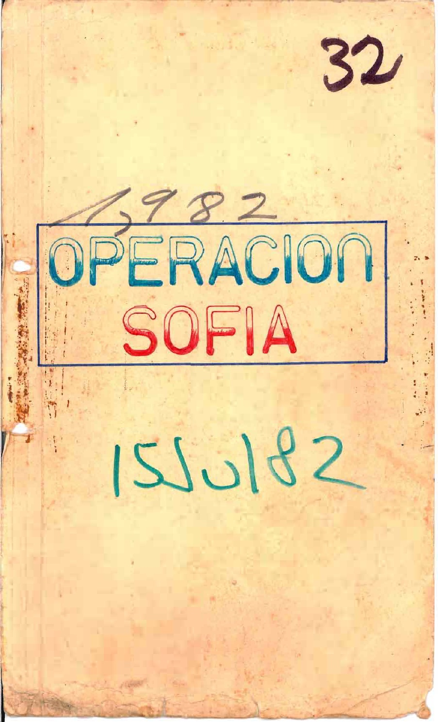 Operation Sofia document obtained by the National Security Archive